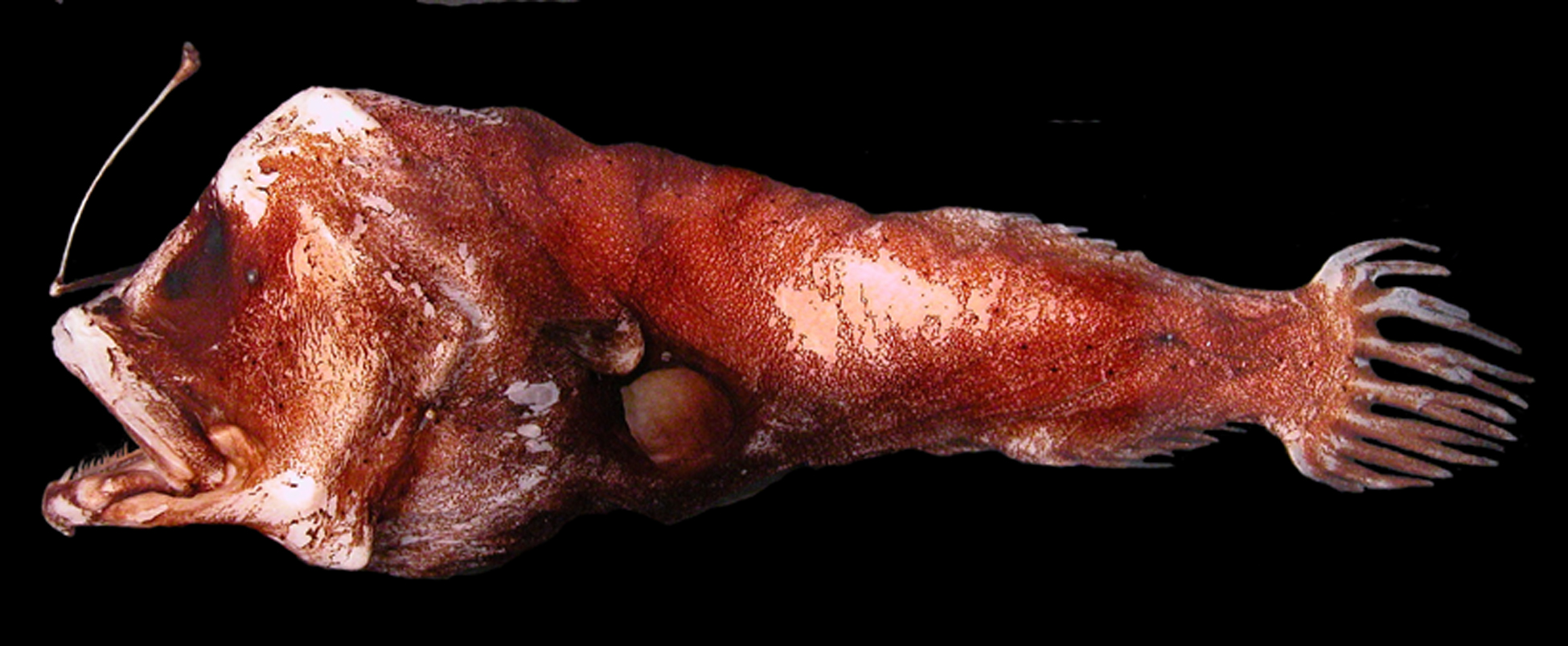 Scientific Name Centrophryne spinulosa Regan & Trewavas, 1932 Specimen Condition Dead Specimen Sex Female